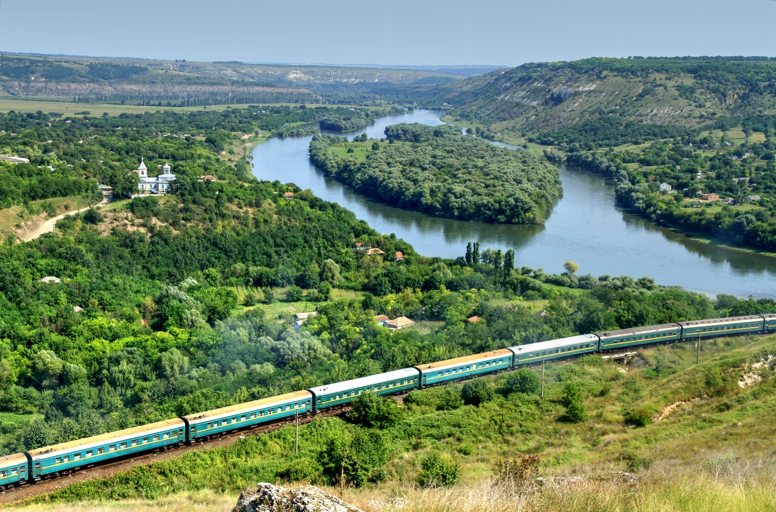 Steep river bank of Dniester, a geological monument of nature located in Ocnița District, near Naslavcea village, at the border with Ukraine